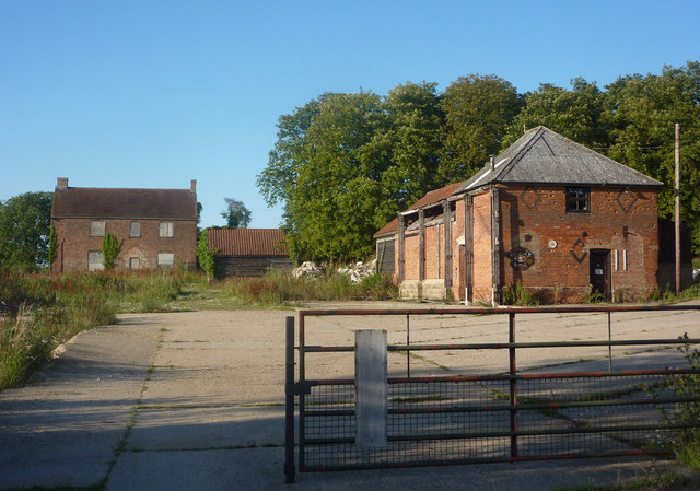 Lawshall Hall The hall and other historic buildings are in need of tlc. Seen from the road at the gateway. The grounds of the hall adjoin the church.